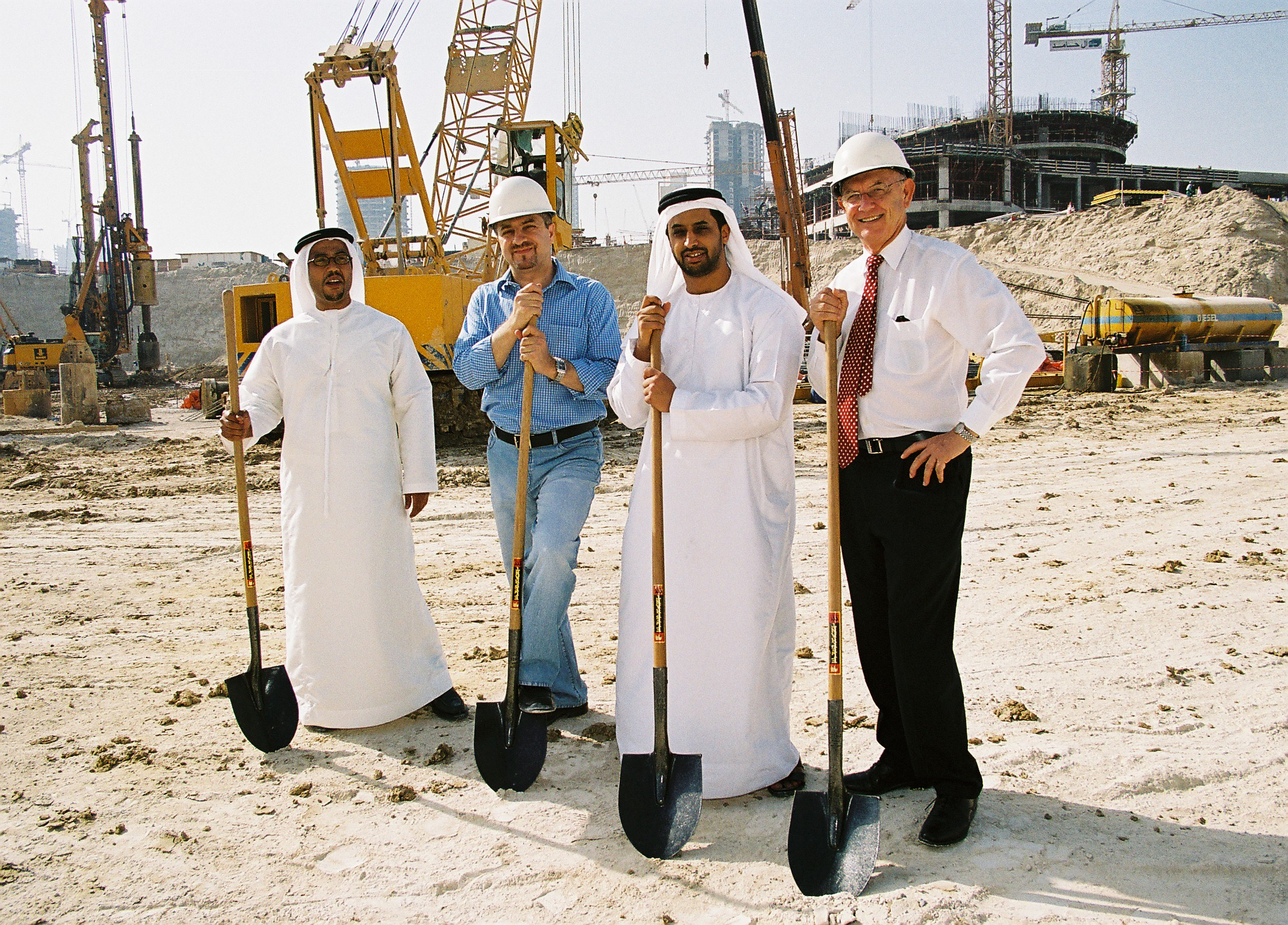 Ahmed Sultan Bin Sulayem during Almas Tower Ground Breaking in 2005.